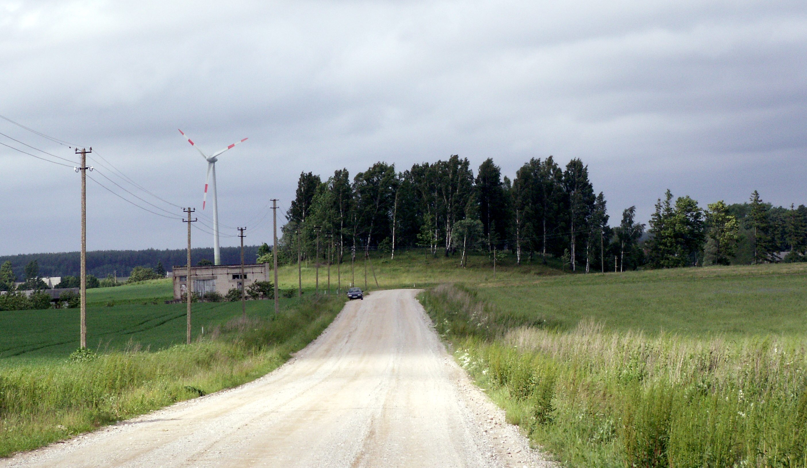 Hillfort Rūdaičiai, Kretinga district, Lithuania